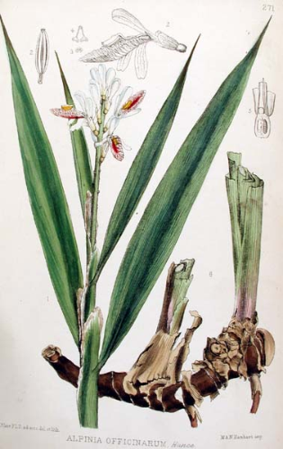 Alpinia officinarum. Plate of Medicinal Plants by Bentkey and Trimen.